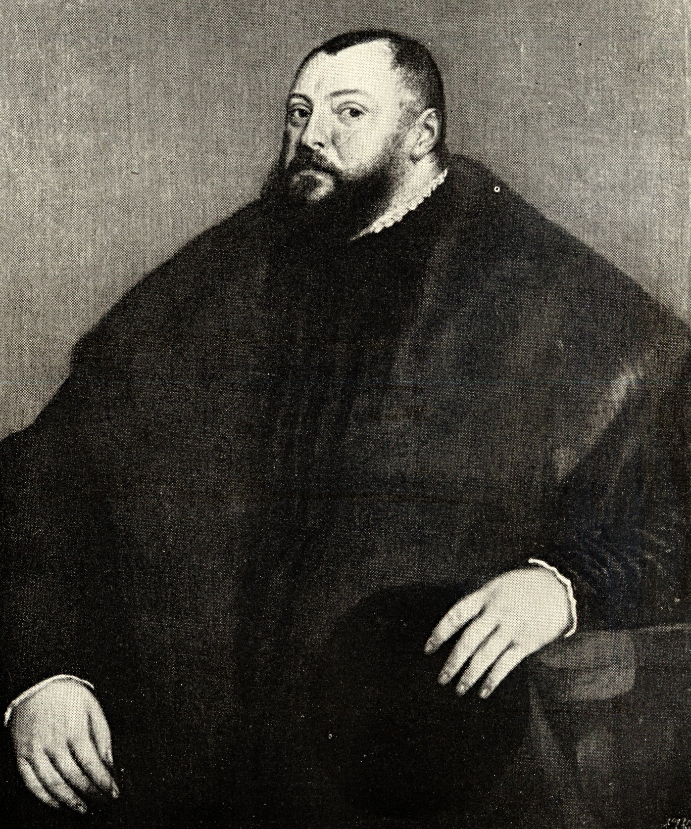 Johann Friedrich (1503-1554)